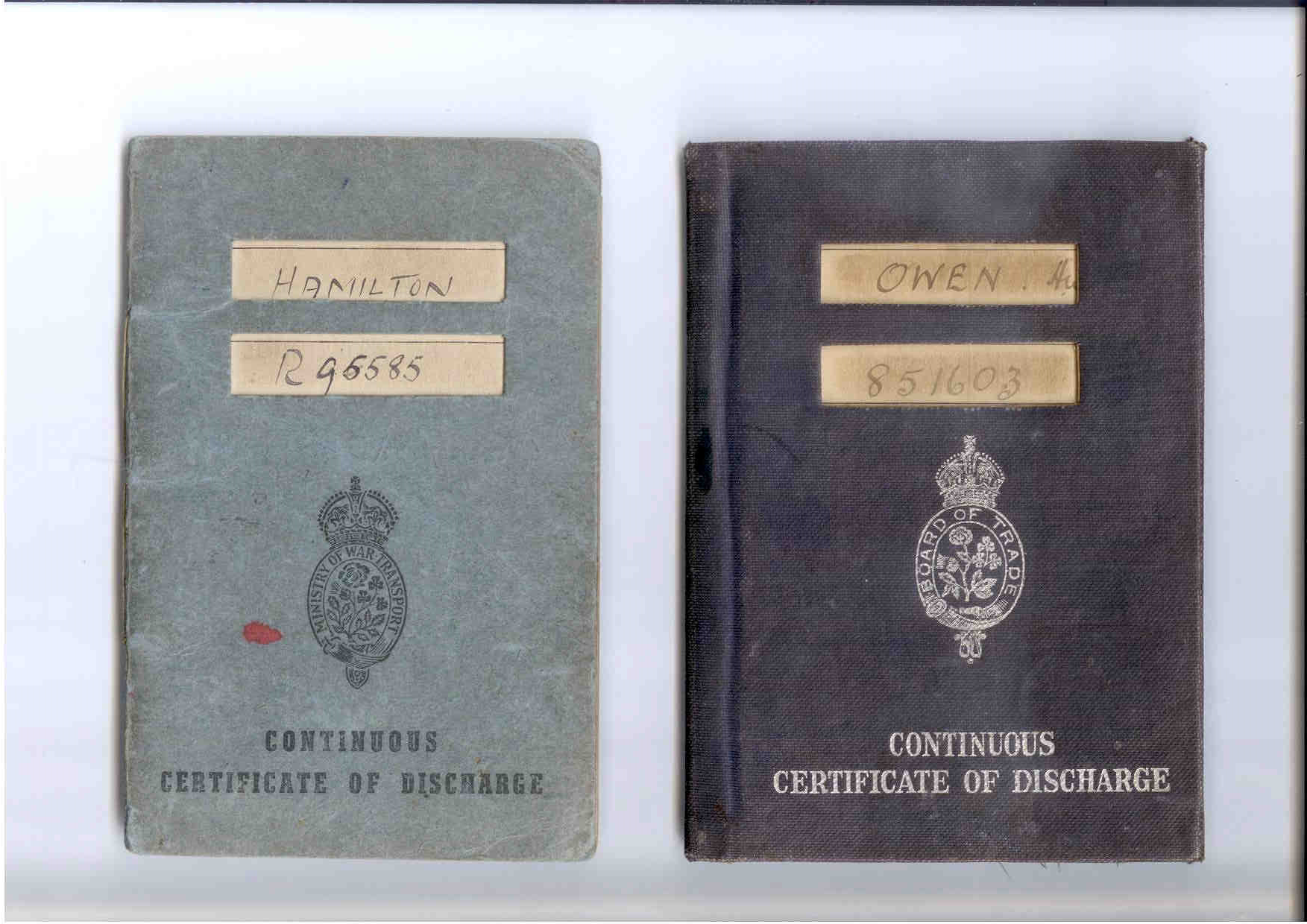 MN Discharge Books